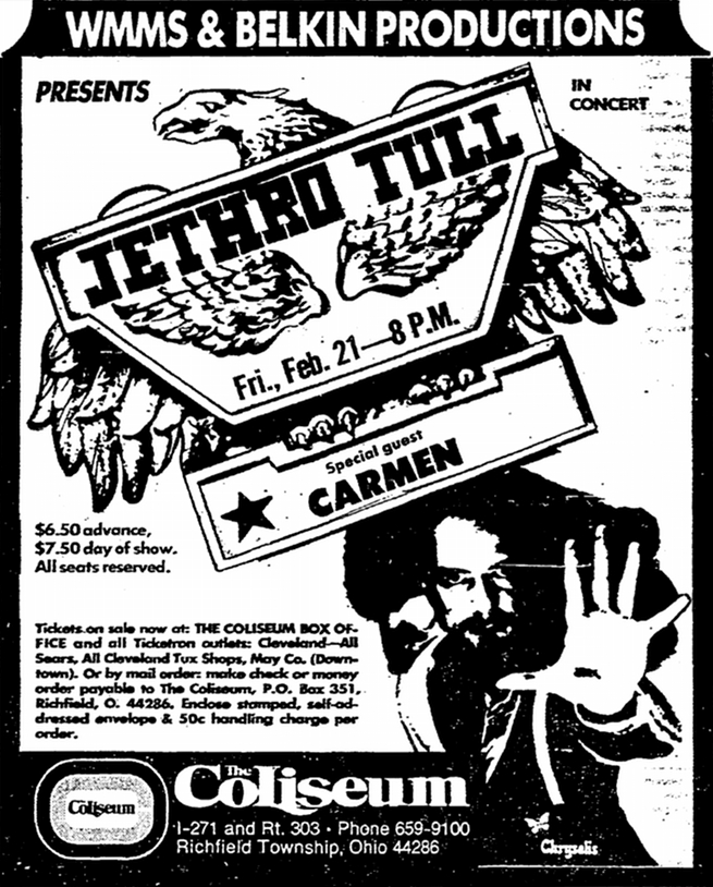 Print ad for Jethro Tull concert